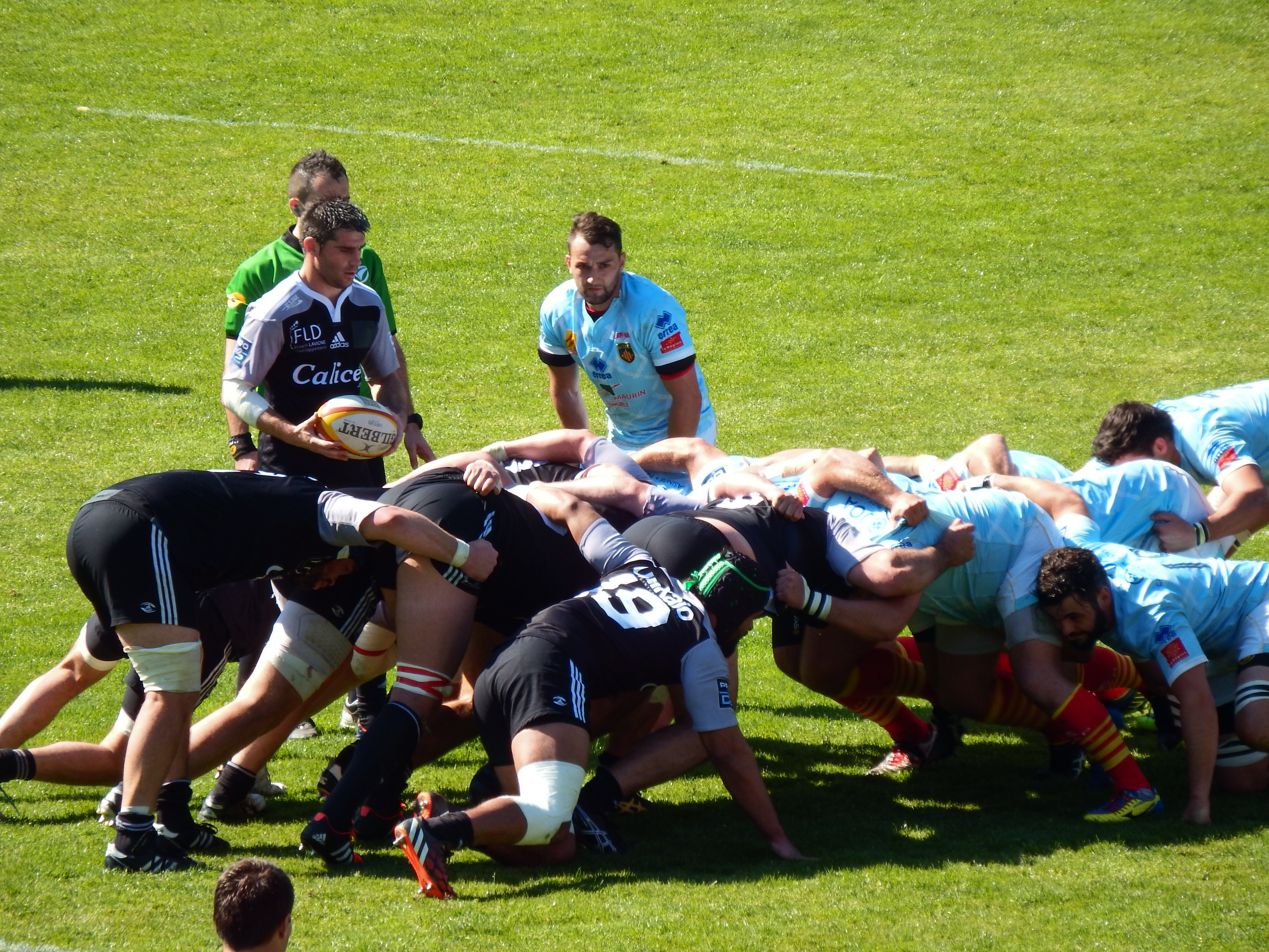 Pro D2 2014-2015 — 12 April 2015, stade Aimé-Giral. Match between: US Dax — USA Perpignan